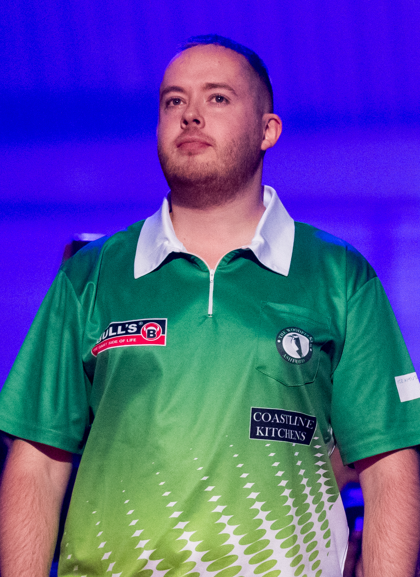 Michael Smith 6:3 Steve Lennon during PDC Europe Darts Matchplay at Maimarkthalle, Mannheim, Baden-Württemberg, Germany on 2019-09-06, Photo: Sven Mandel